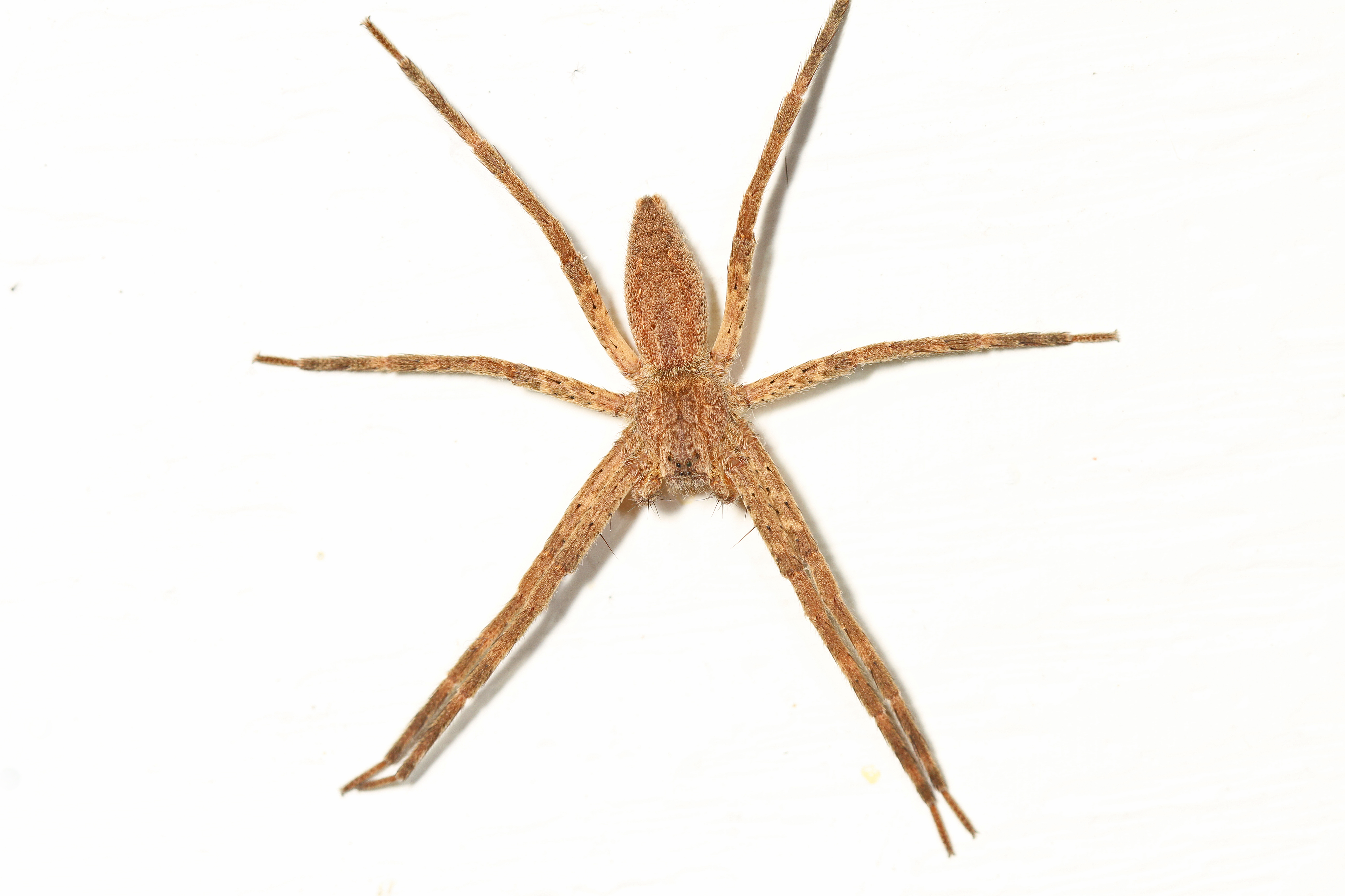 Nursery Web Spider - Pisaurina mira, Woodbridge, Virginia